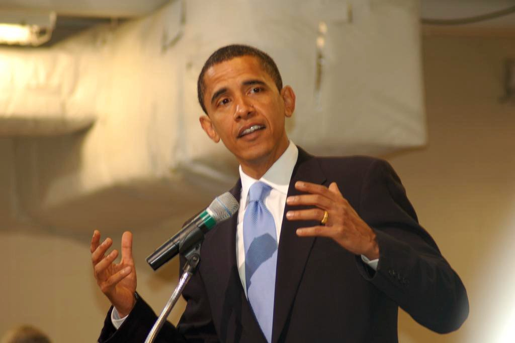 Barack Obama in Des Moines, Iowa